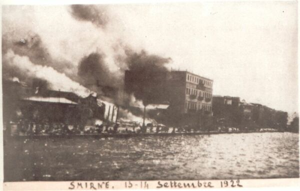 Smyrna fire, 1922. Buildings on fire at the quay. 13-14.Sep.1922.